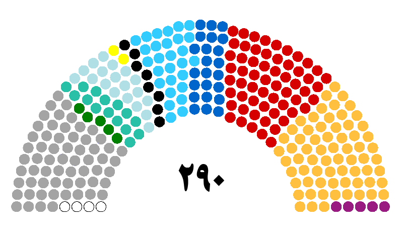 Seats of the tenth parliamentary term